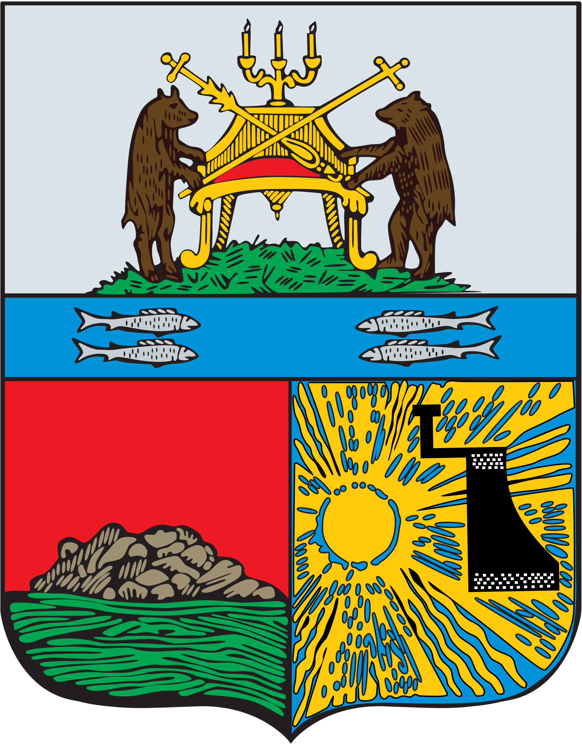 Cherepovets (Vologda oblast), coat of arms (1811)